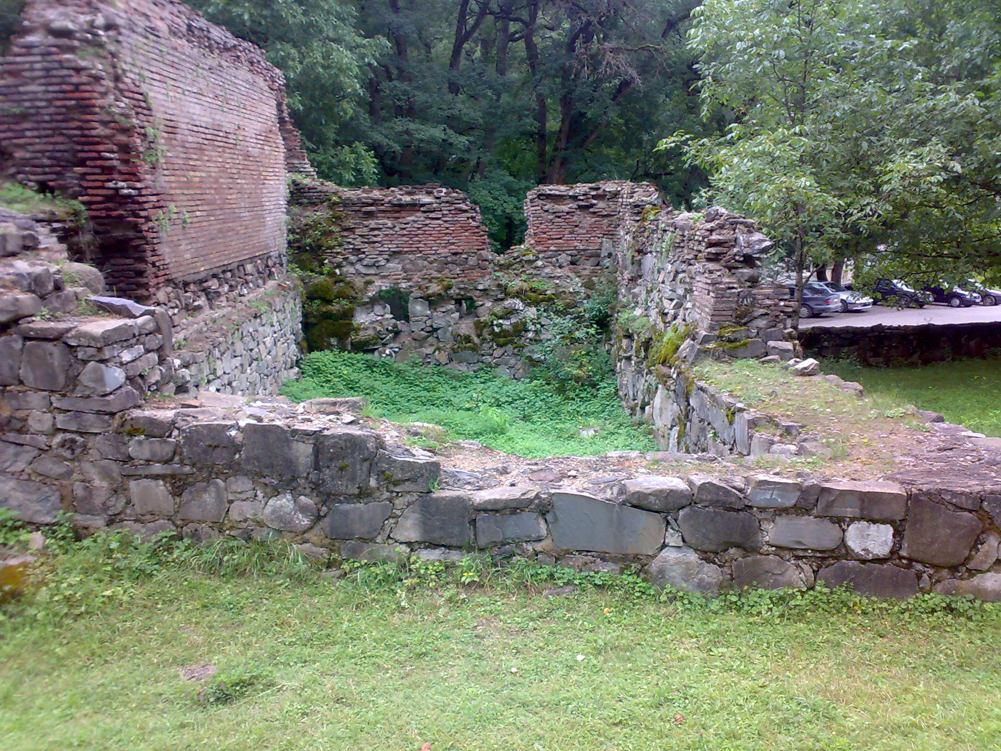 Timotesubani Monastery